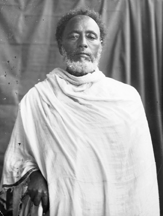 Portrait of ras Mikaël, in his palace at Dessié (Wollo province)